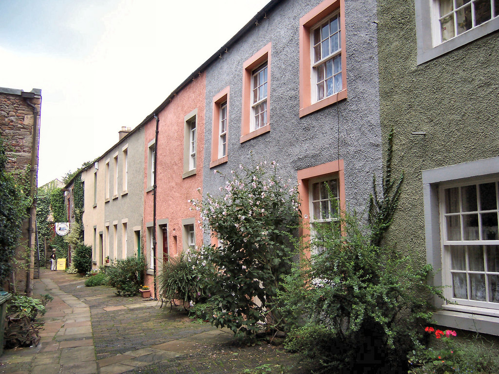 Bank Court. Bank Court is a one of several similar courtyards behind Main Street and (in this case) Market Place. At the end of the row of terraces on the right hand side, you can just see the entrance sign for the Cumberland Toy and Model Museum. Sadly, this has since closed. (see also 1705978)